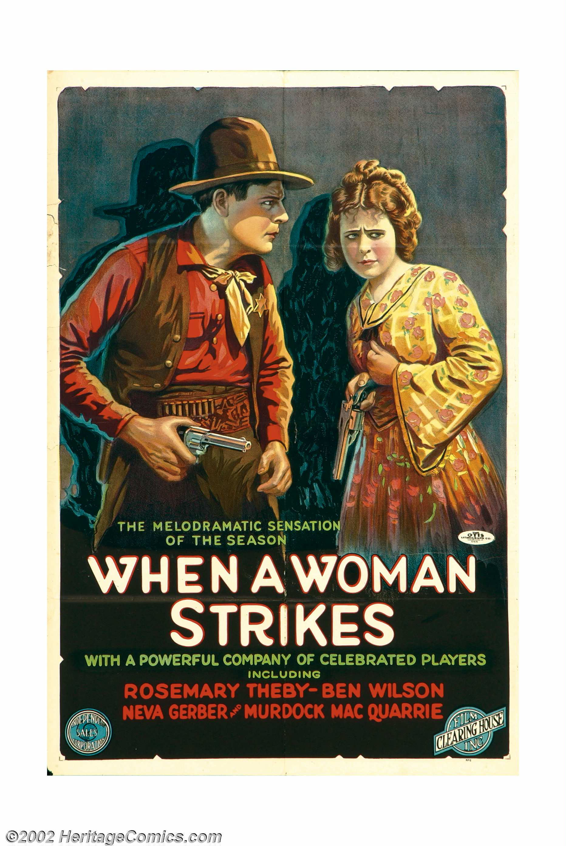 Poster for the American western film When a Woman Strikes (1919).